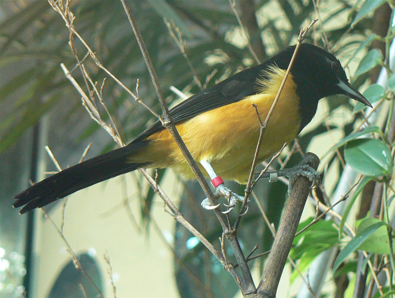 Male Montserrat Oriole (Icterus oberi), London Zoo